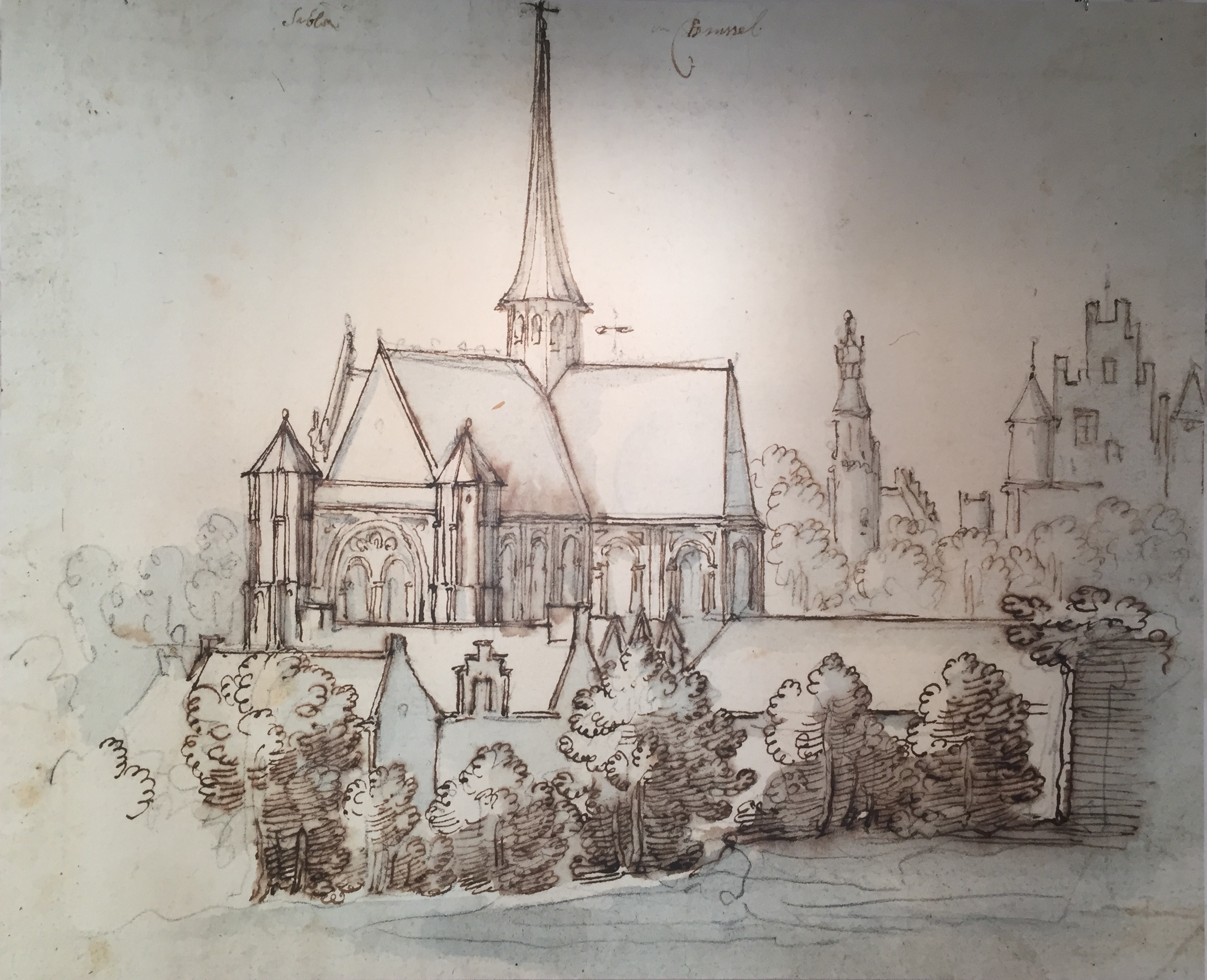 Sablon Square, in Brussels, by Remigio Cantagallina, ca. 1612.